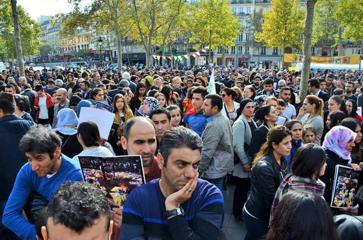 Protests against the 2015 Ankara bombings in Paris.